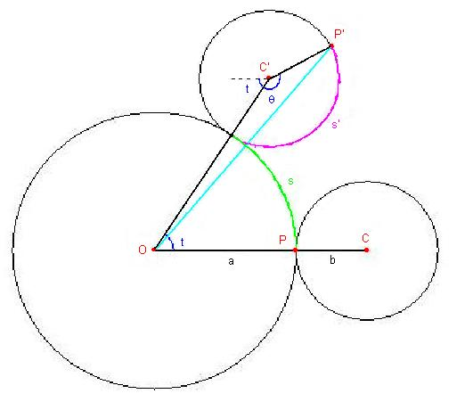 Figure used to describe the parameterization of an epicycloid